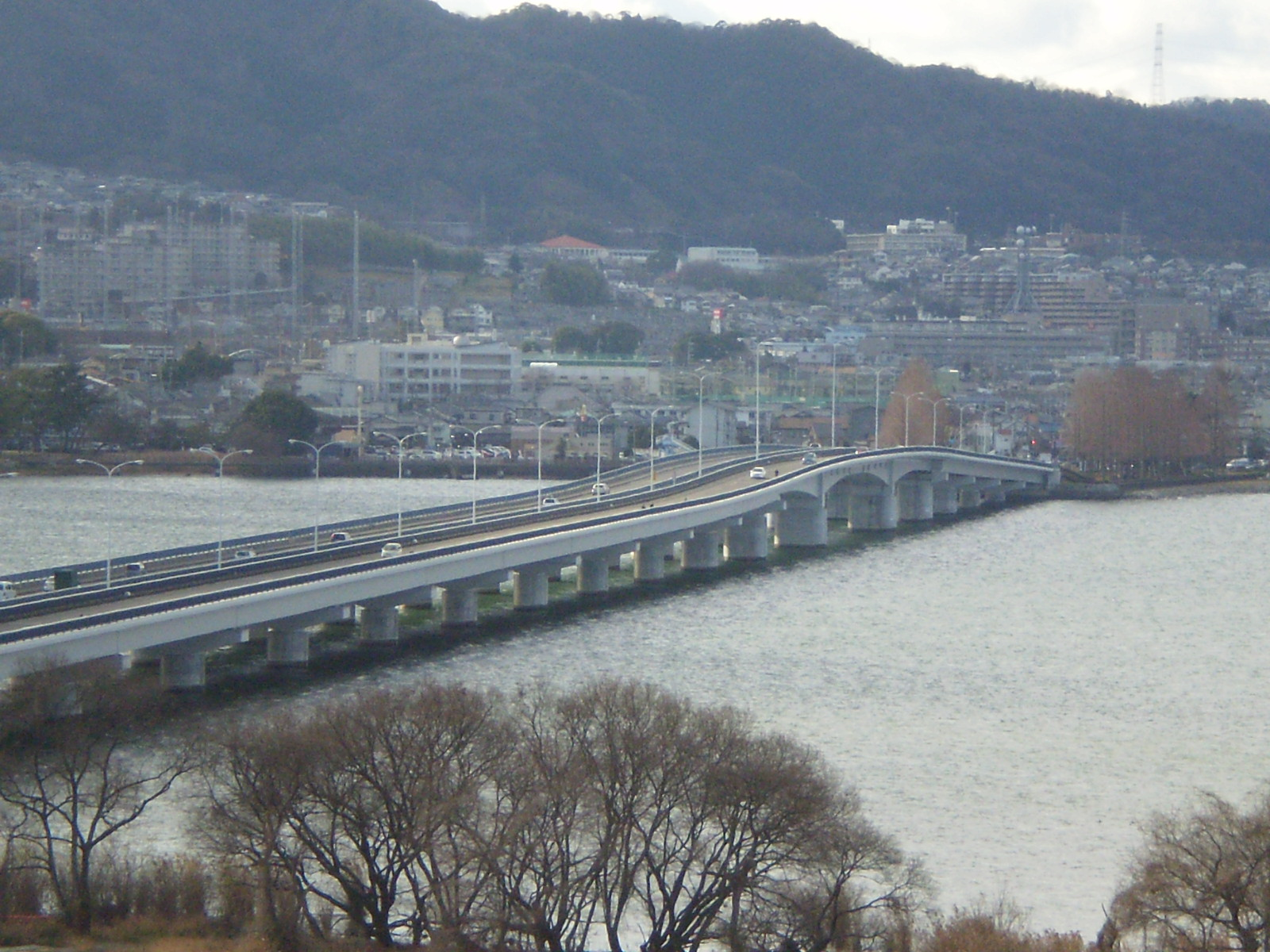 Omi-Ohashi tollway